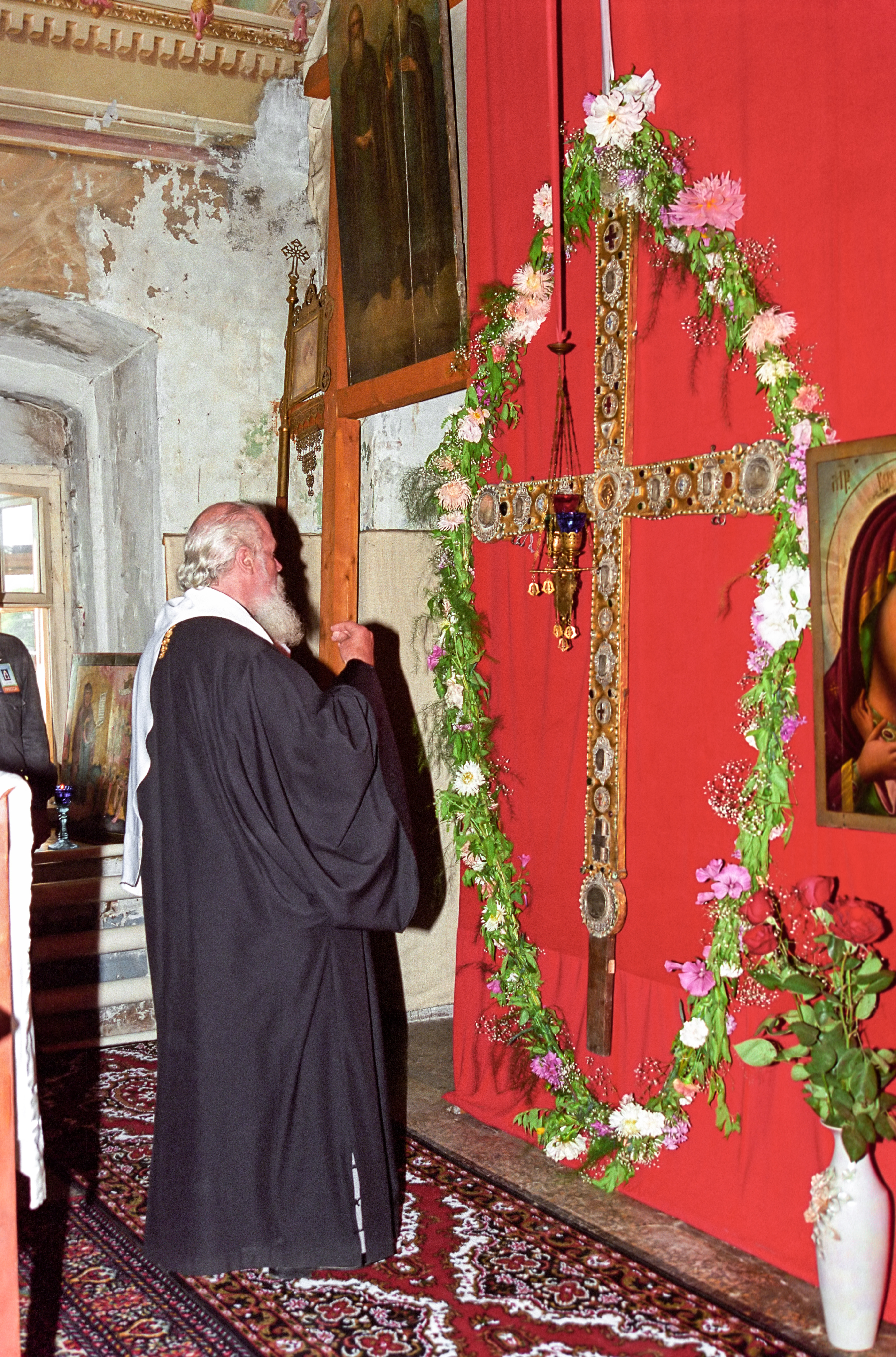 Patriarch Alexy II of Moscow visited Nikolsky monastery in Pereslavl and prayed before the Korsun cross.